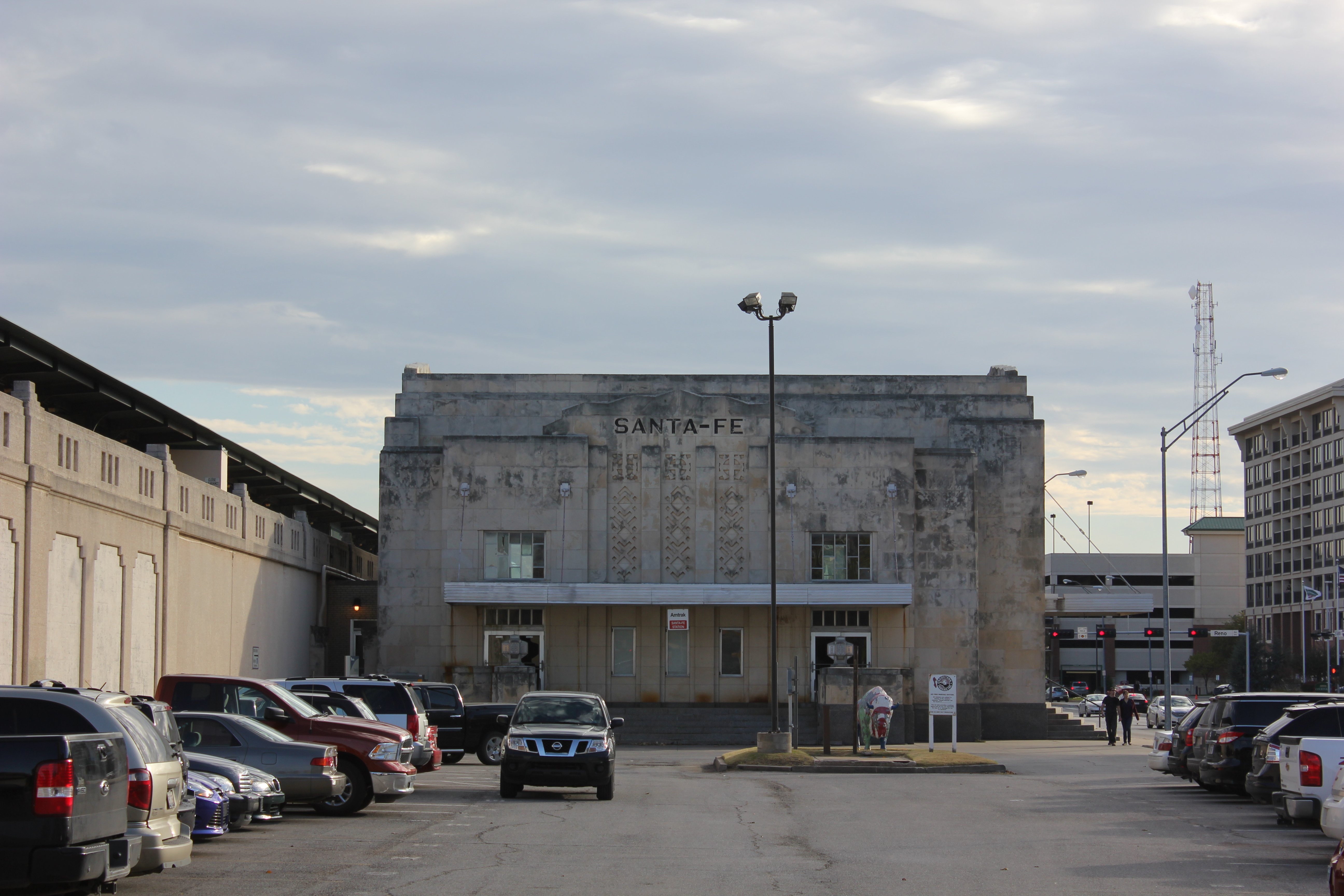 Originally opened in 1934, reopened in 1999. More info here